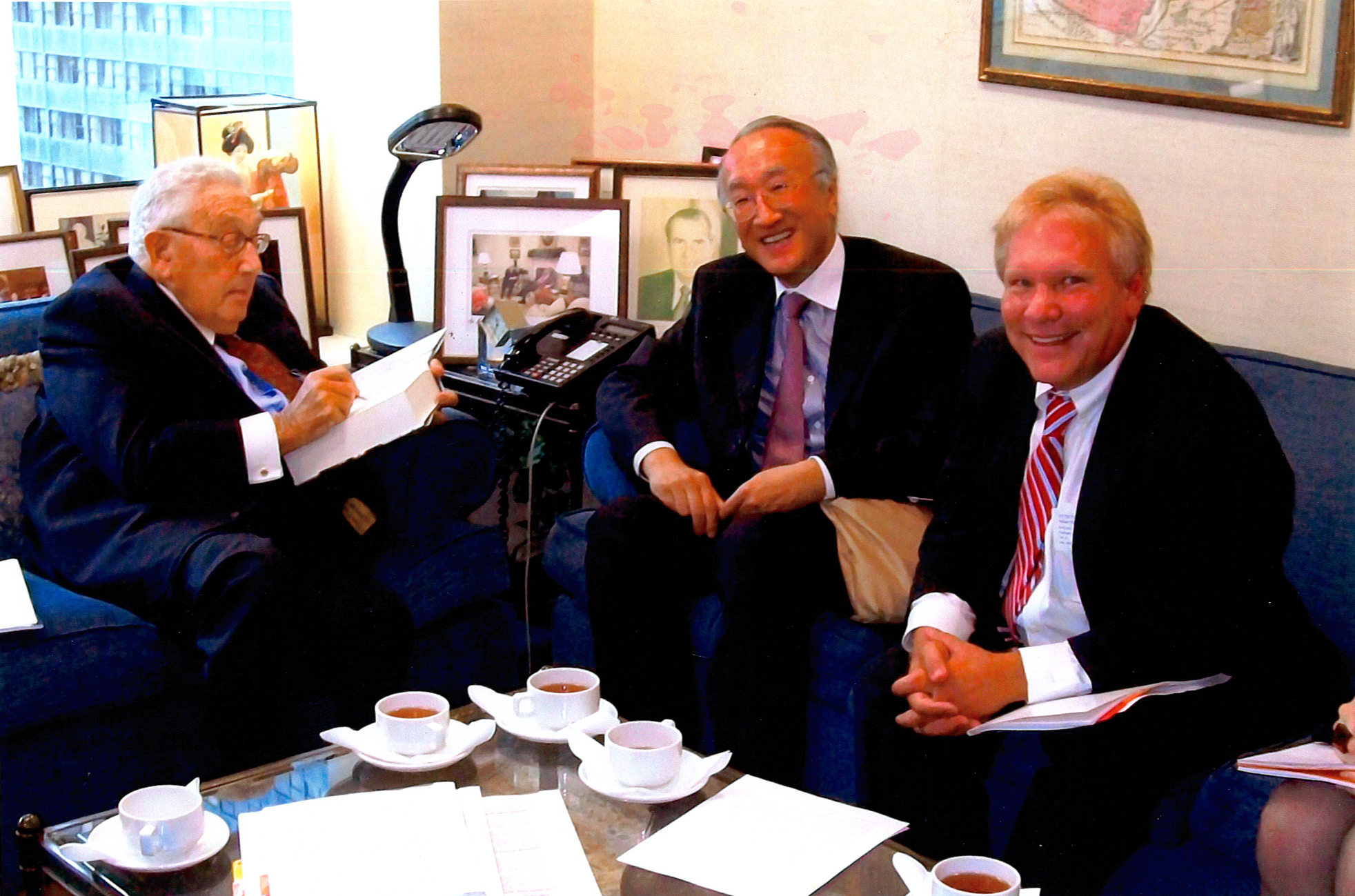 Photo of meeting with WFM and HK